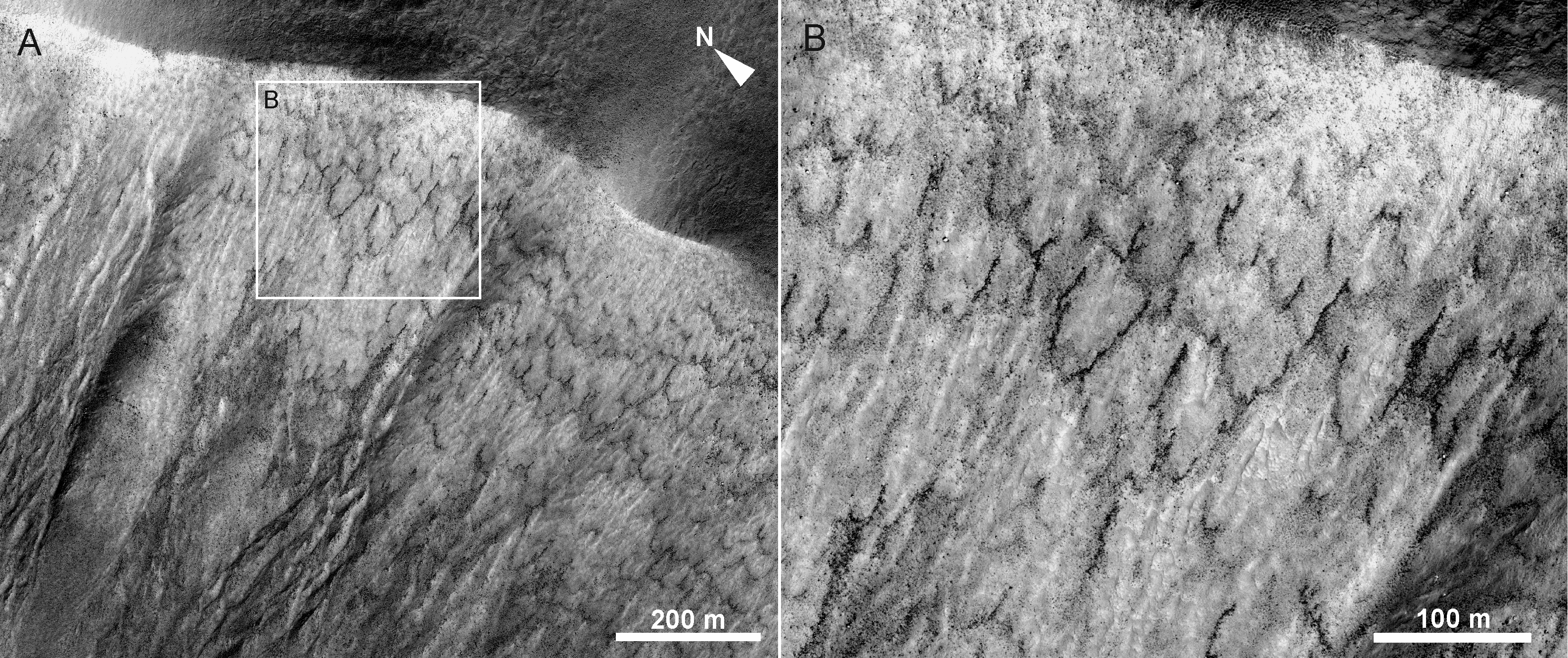 Part of HiRISE image capturing possible martian analogue to terrestrial solifluction in Acidalia Planitia (centered 63.775°N, 292.321°E) on Mars